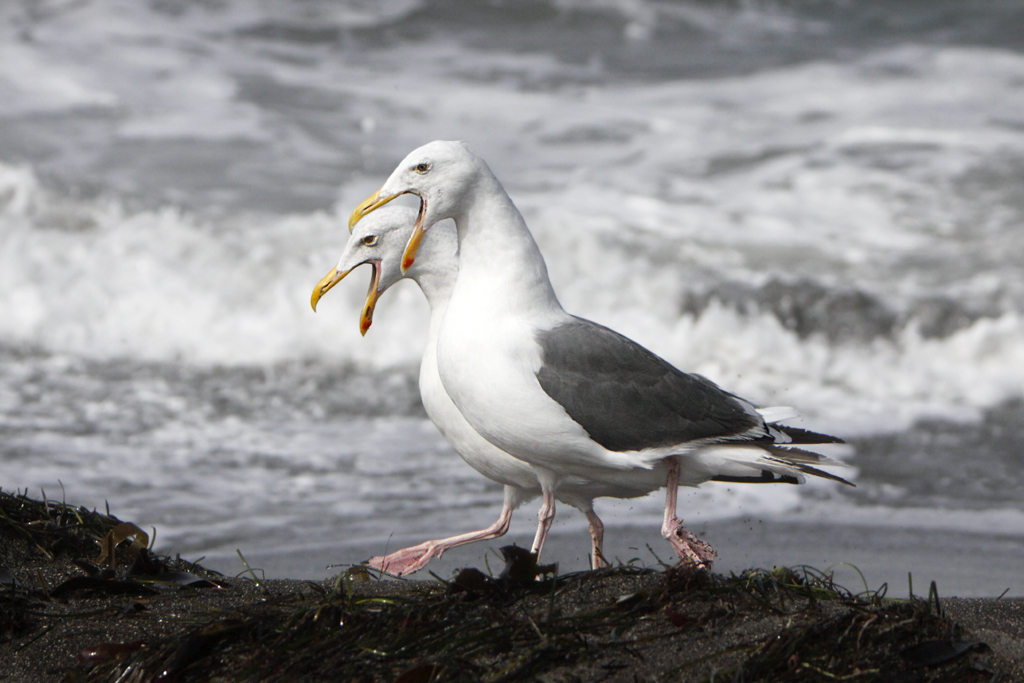 Two adult Western Gulls, Larus occidentalis displaying the synchronized, side-by-side movements associated with pair/mate bonding, McKerriker Park, California, USA.